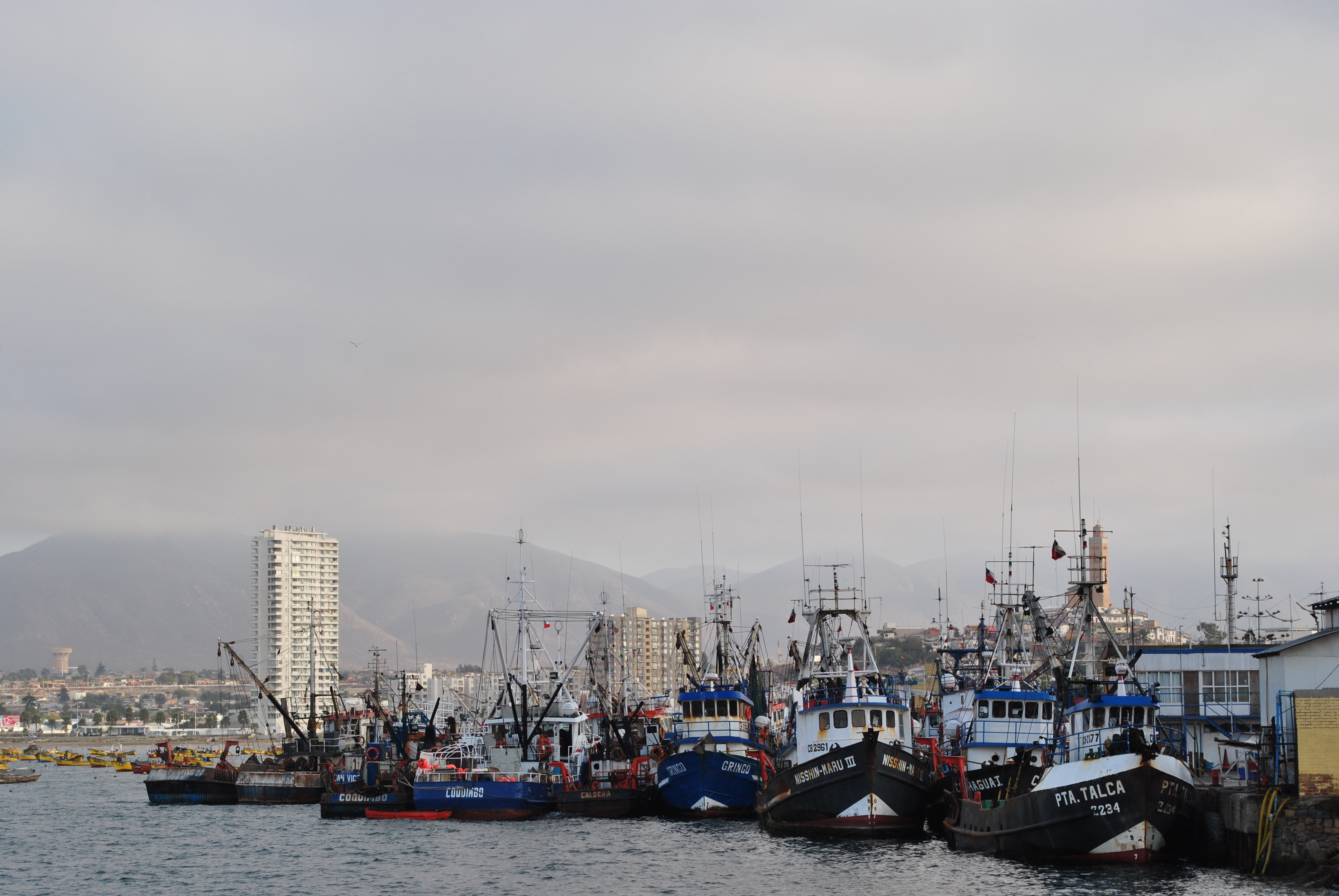 Port of Coquimbo, IV Region of Chile, 6 hours from the capital of Santiago, where the fishing tradition is mescla in contrast to large buildings, breaking sight of its inhabitants.